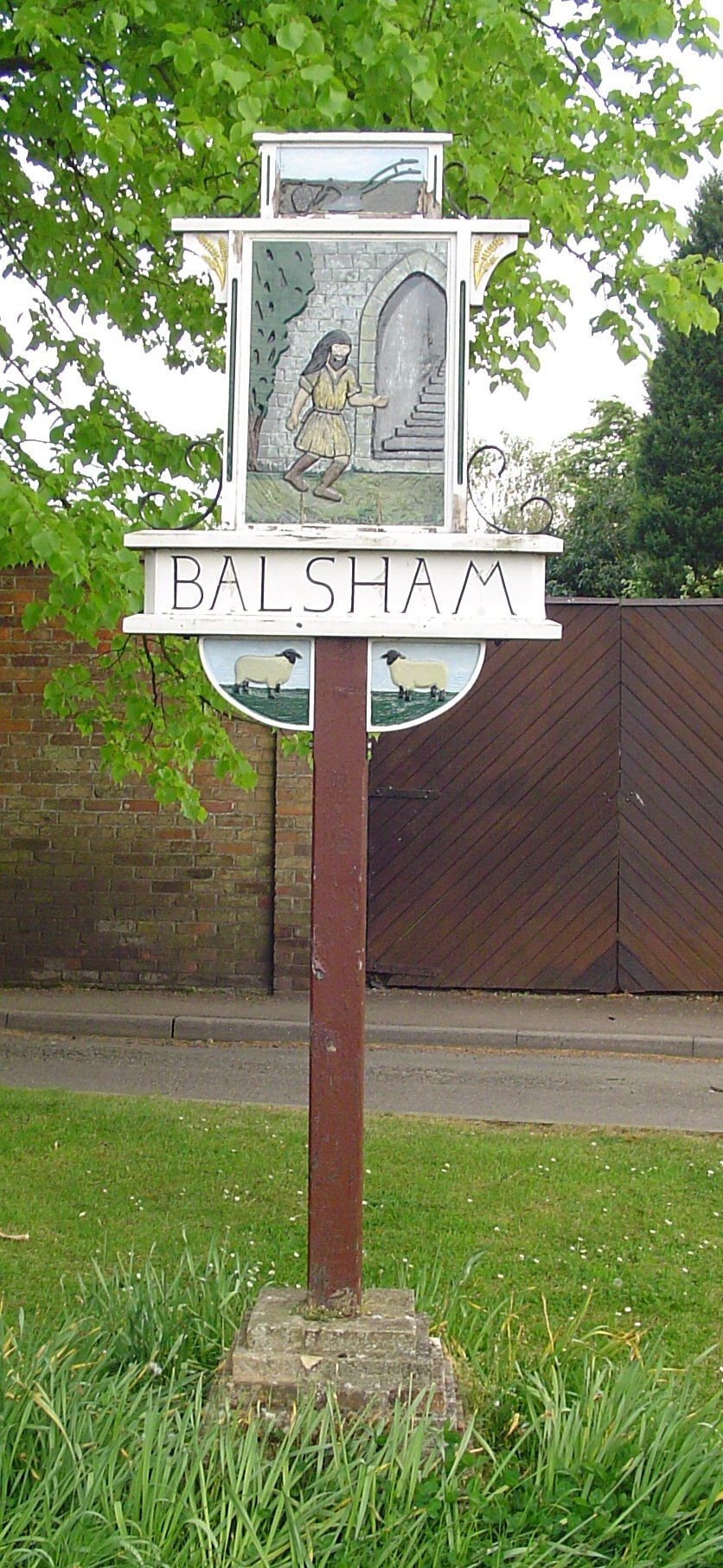 Signpost in Balsham